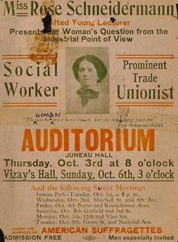 Pre-1920 poster featuring American social activist Rose Schneidermann.